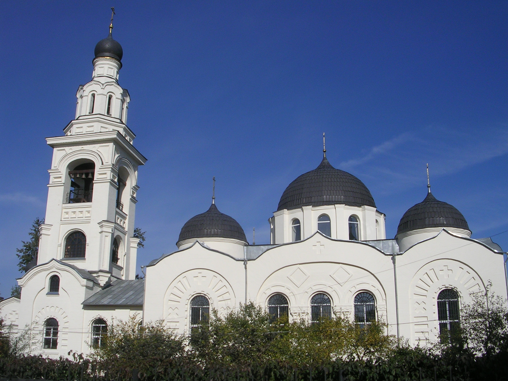 Holy Trinity Temple in Elektrougli, Noginsk district of Moscow region.